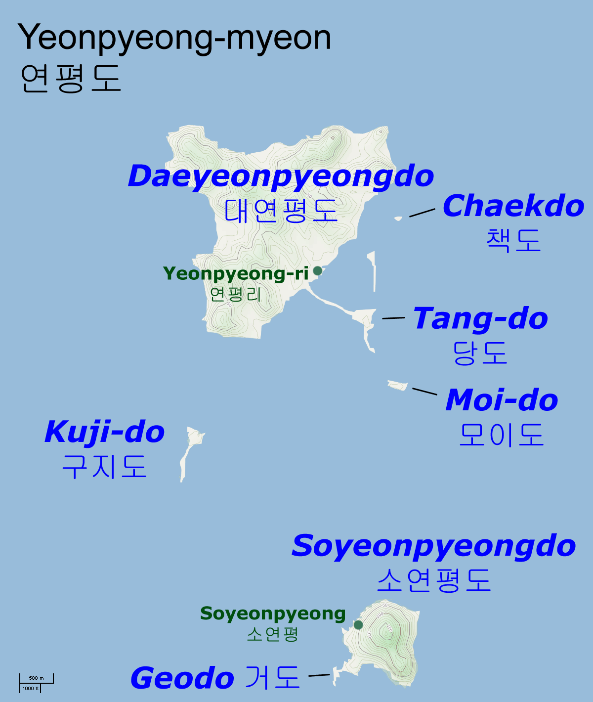 Map of Yeonpyeong Islands, Ongjin County, Incheon, South Korea Kanuri: 대한민국 인천광역시 옹진군 연평도 지도.